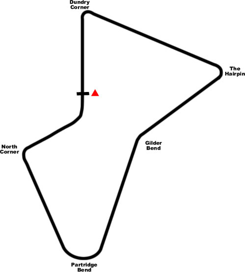 Lulsgate Areodrome circuit layout (1949)